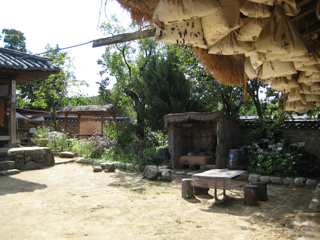 Hanok, Korean traditional house in Hahoe Folk Village in Andong, Gyeongsangbuk-do, South Korea